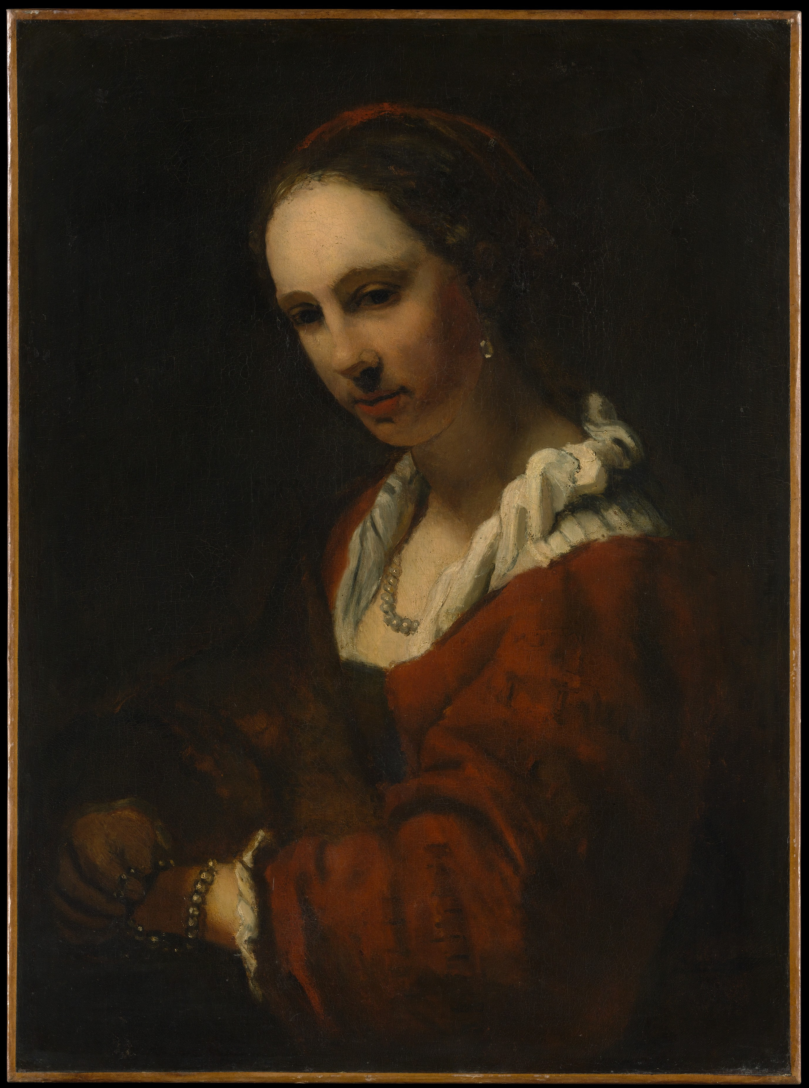 This image is available from the Netherlands Institute for Art Historyunder digital ID 58846. This tag does not indicate the copyright status of the attached work. A normal copyright tag is still required. See Commons:Licensing.